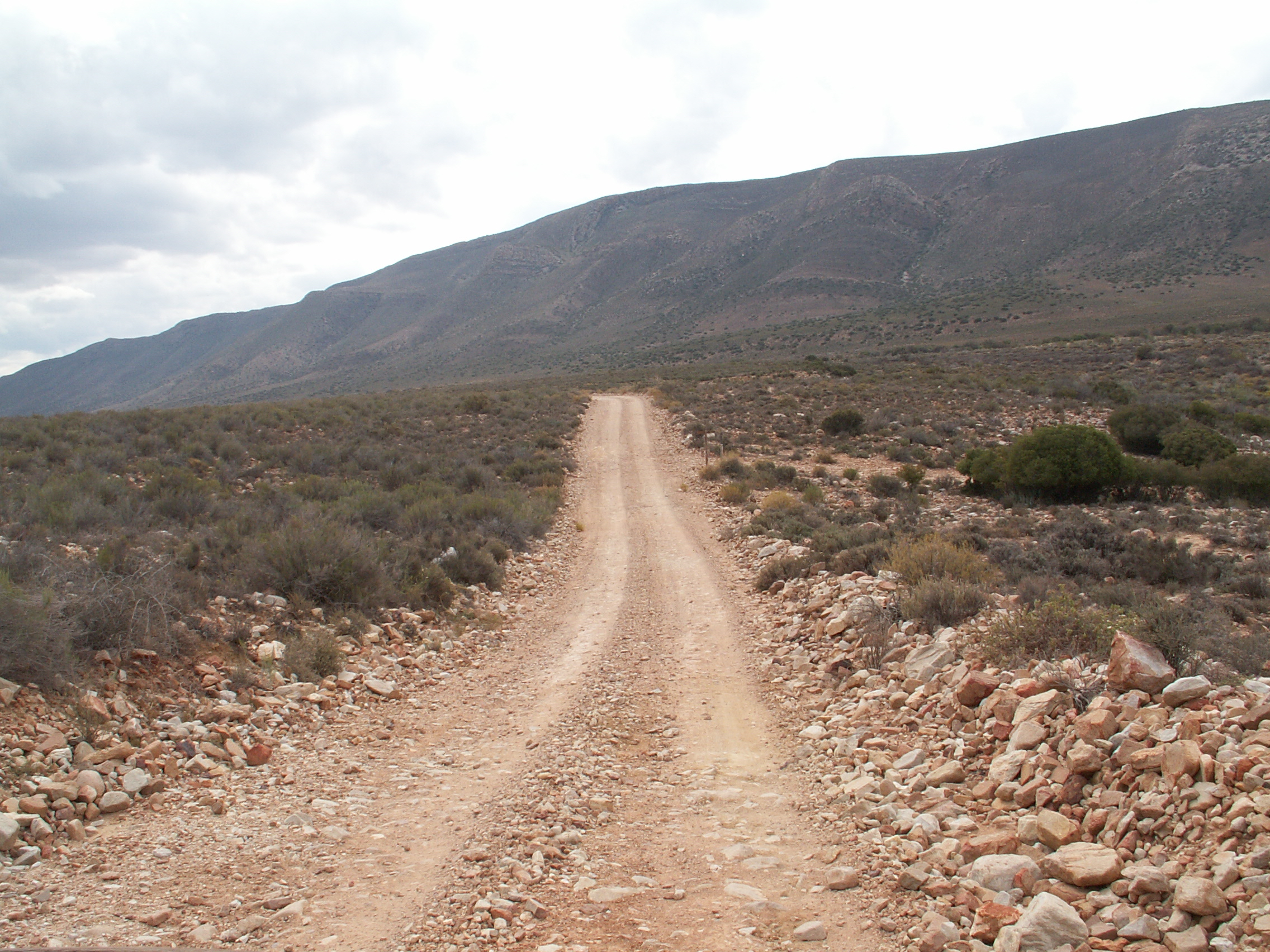 Anysberg Nature Reserve, Western Cape, South Africa